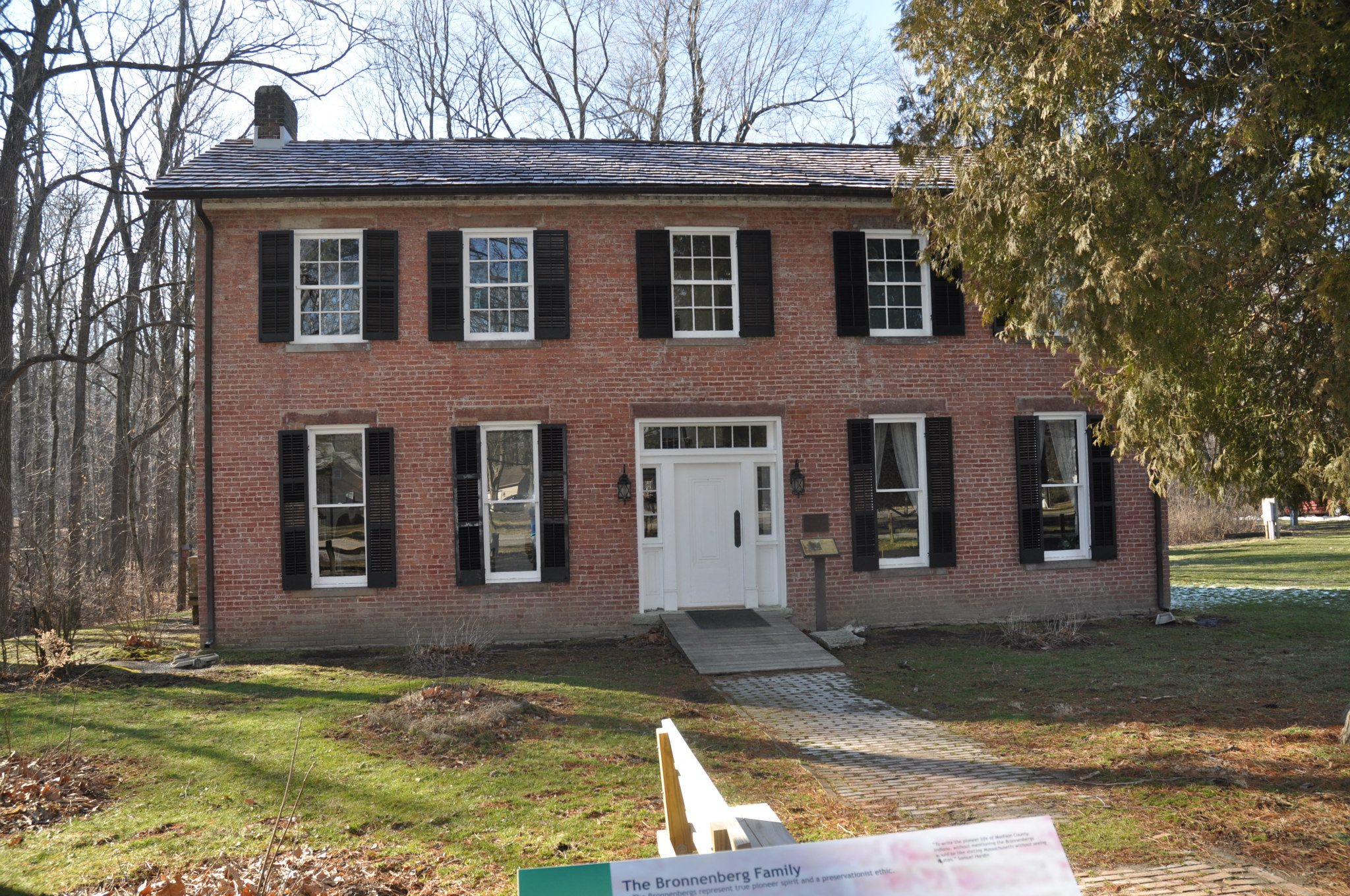 Picture of Mounds State Park.